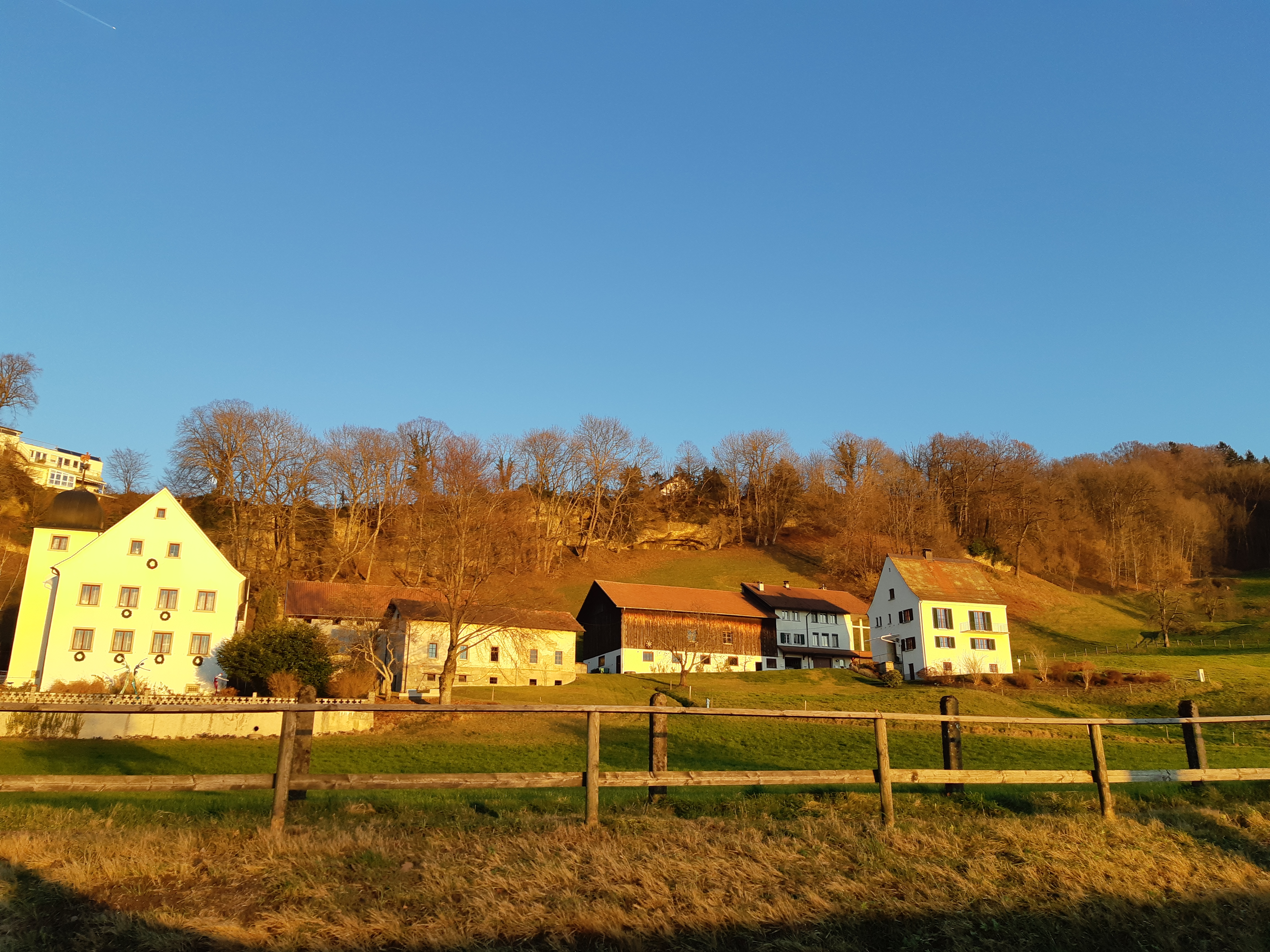 "Wellensteinhoehle" (cave) in the Wellenstein parcel in the municipality of Lochau in Vorarlberg, Austria. In the foreground the "Wellenstein" castle.